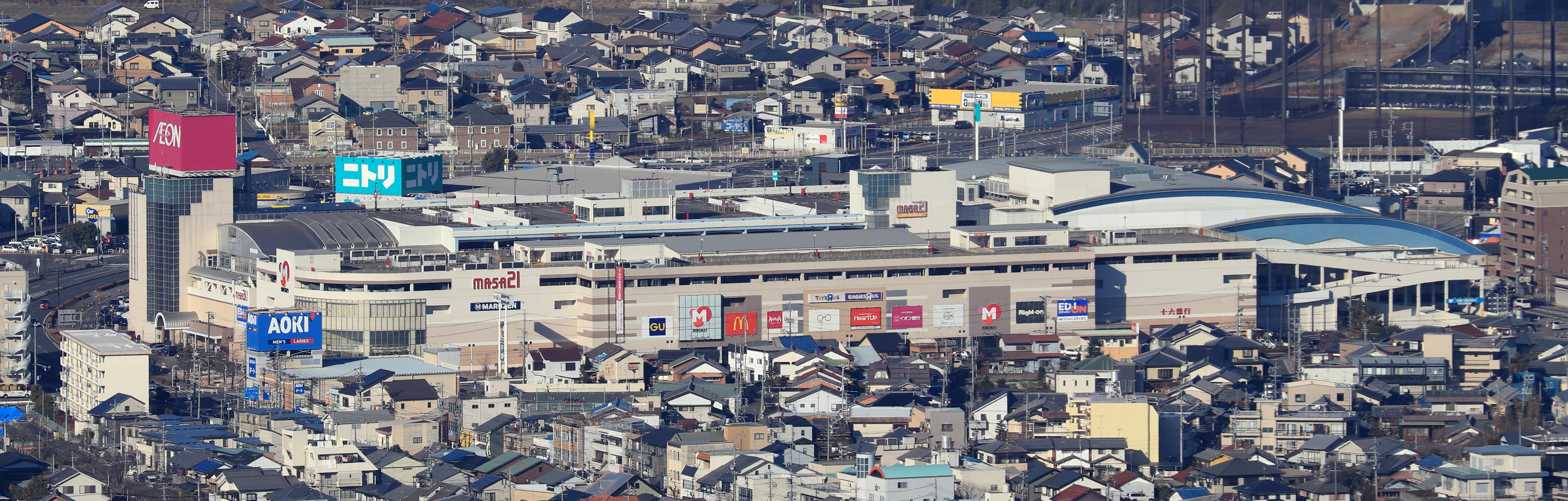 MASA21 seen from Gifu Castle on Mount Kinka in Gifu City, Gifu Prefecture, Japan. Canon EOS Kiss X9